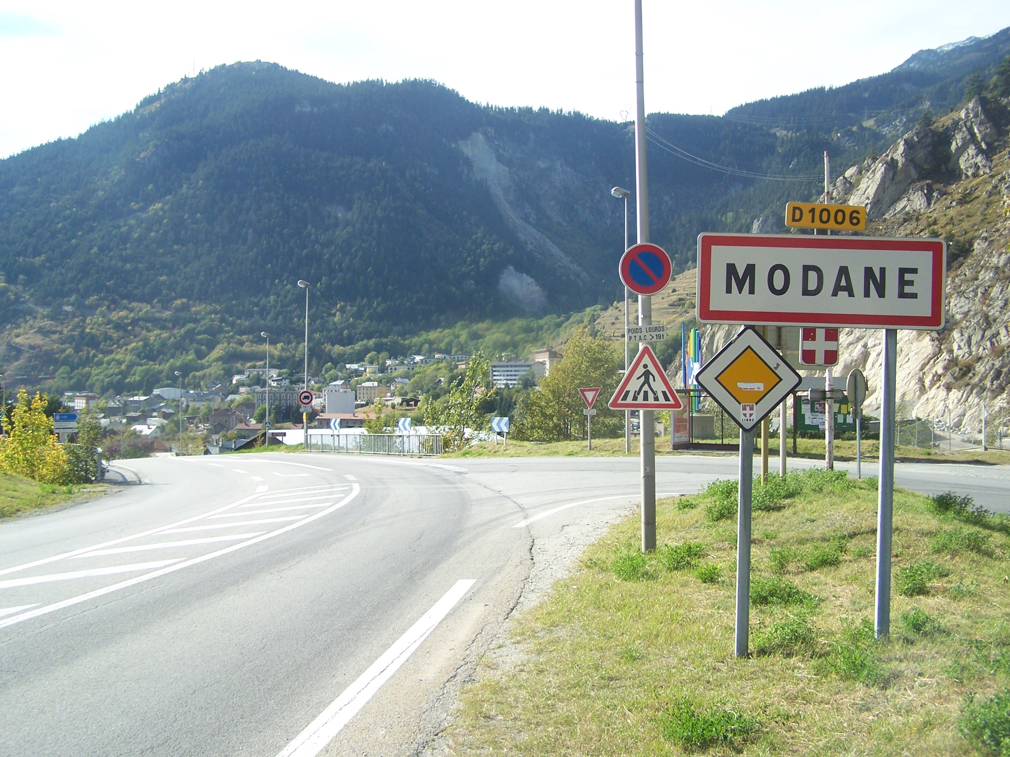 Sign welcoming visitors to the French commune of Modane in Savoie (Alps).